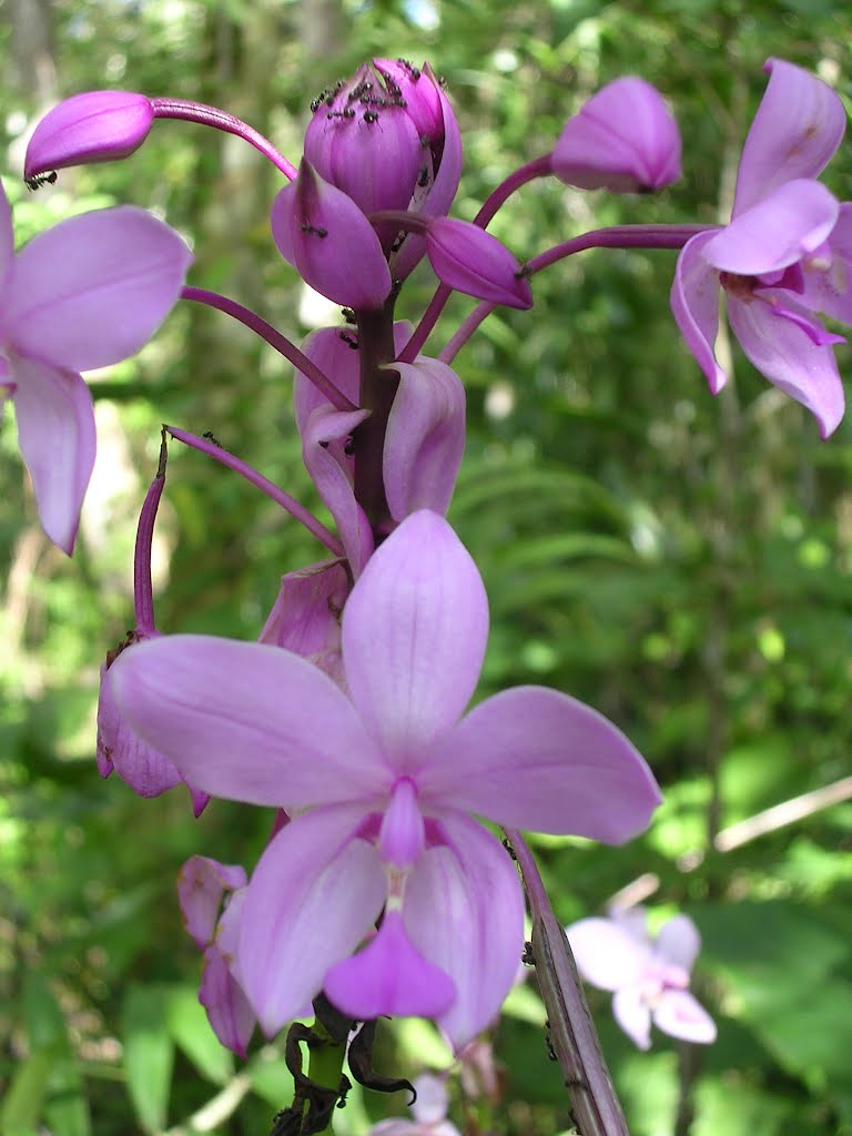 An epiphytic orchid in Evergreen swamp forest at Bauro Roco forest, Bauro, Lautem, Timor-Leste